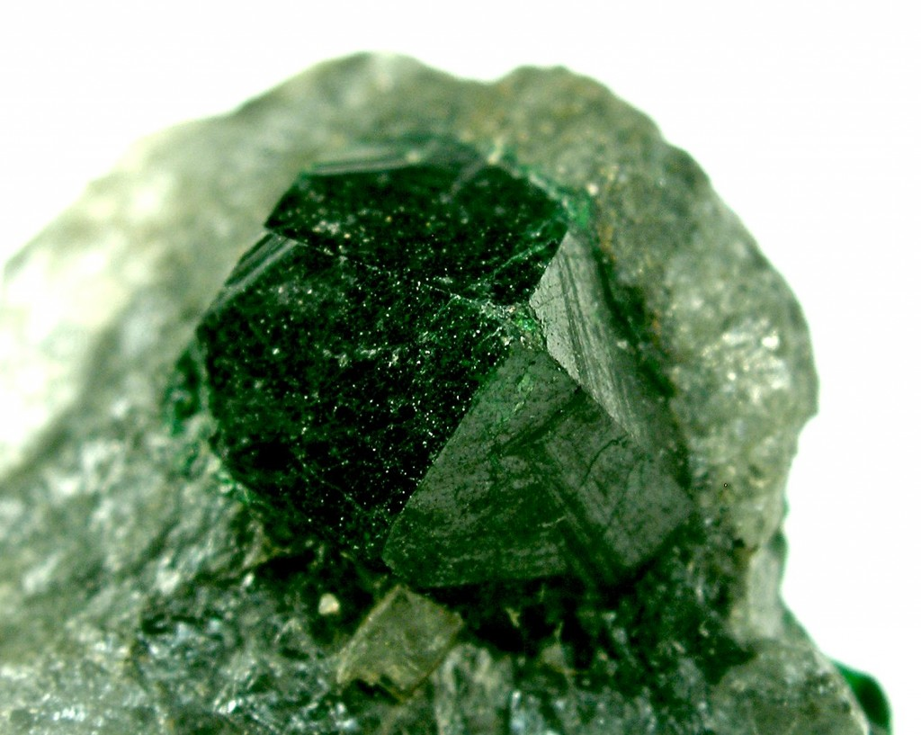 Uvarovite Locality: Outokumpu Cu-Zn deposit, Outokumpu Cu-Co-Zn-Ni-Ag-Au ore field, Itä-Suomen Lääni, Finland (Locality at ) Size: 4.4 x 3.2 x 2.3 cm. A huge crystal of just over 8mm, which is remarkable for this old classic locality, frozen in massive calcite matrix. Good Finland uvarovites are generally regarded as best of species, for size and intense color, and are now old classics hard to obtain. This is from an old German collection.